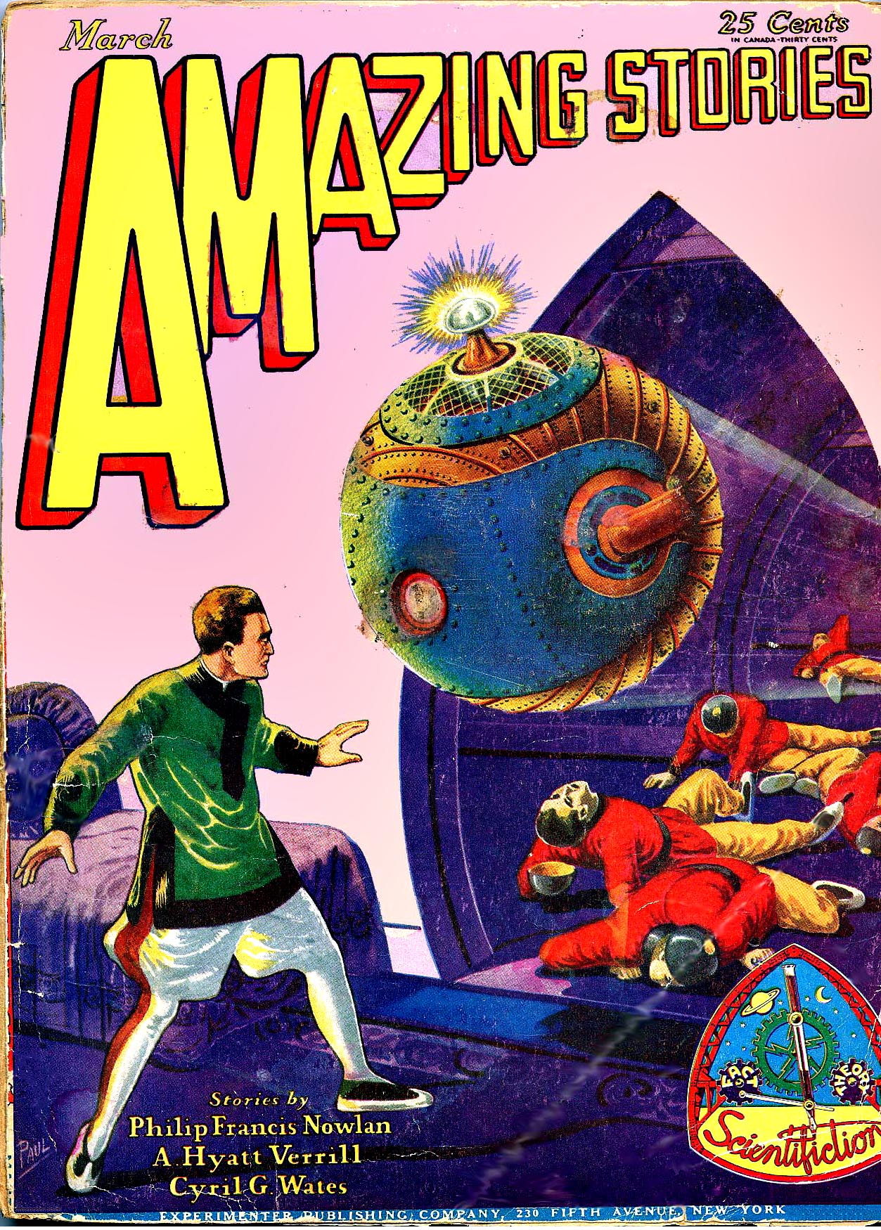 Cover of the pulp magazine Amazing Stories (March 1929, vol. 3, no. 12). The Internet Speculative Fiction Database:"Cover illustrates "The Airlords of Han."